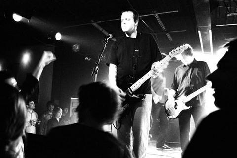 Guided by Voices performing at Mississippi Nights in 2004.